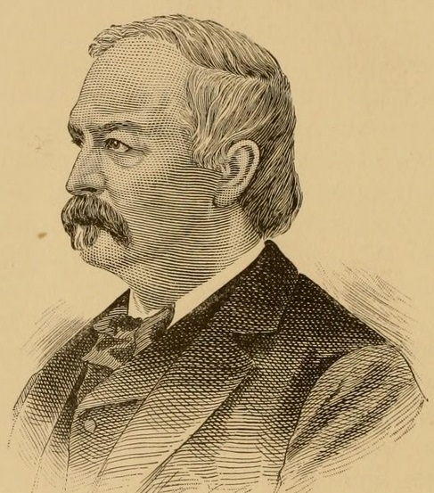 William Brown Maclay, Congressman from New York